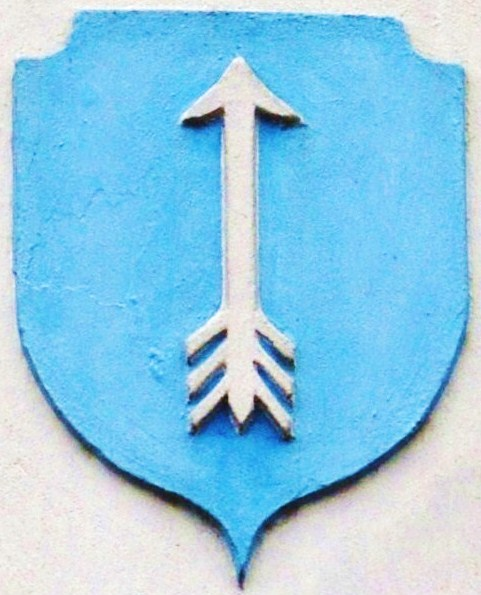 Arms of Well Limburg